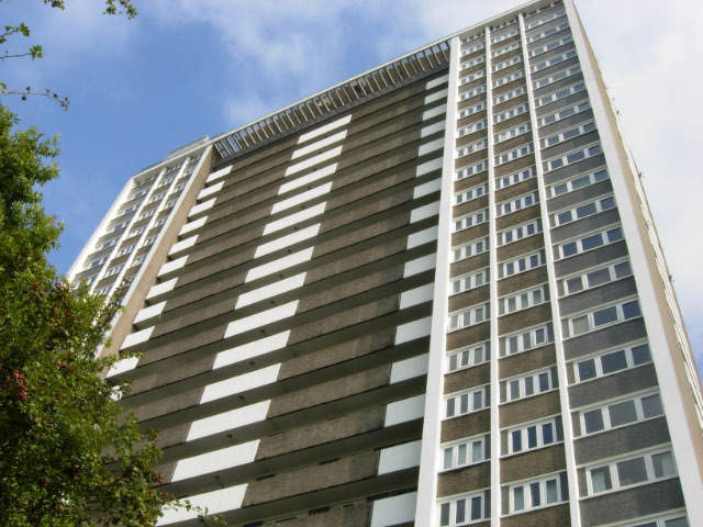 Michael Cliffe House, Finsbury Estate Michael Cliffe House was completed in 1967; it has 25 storeys and incorporates 185 flats. Michael Cliffe was Mayor of Finsbury and later a local MP.